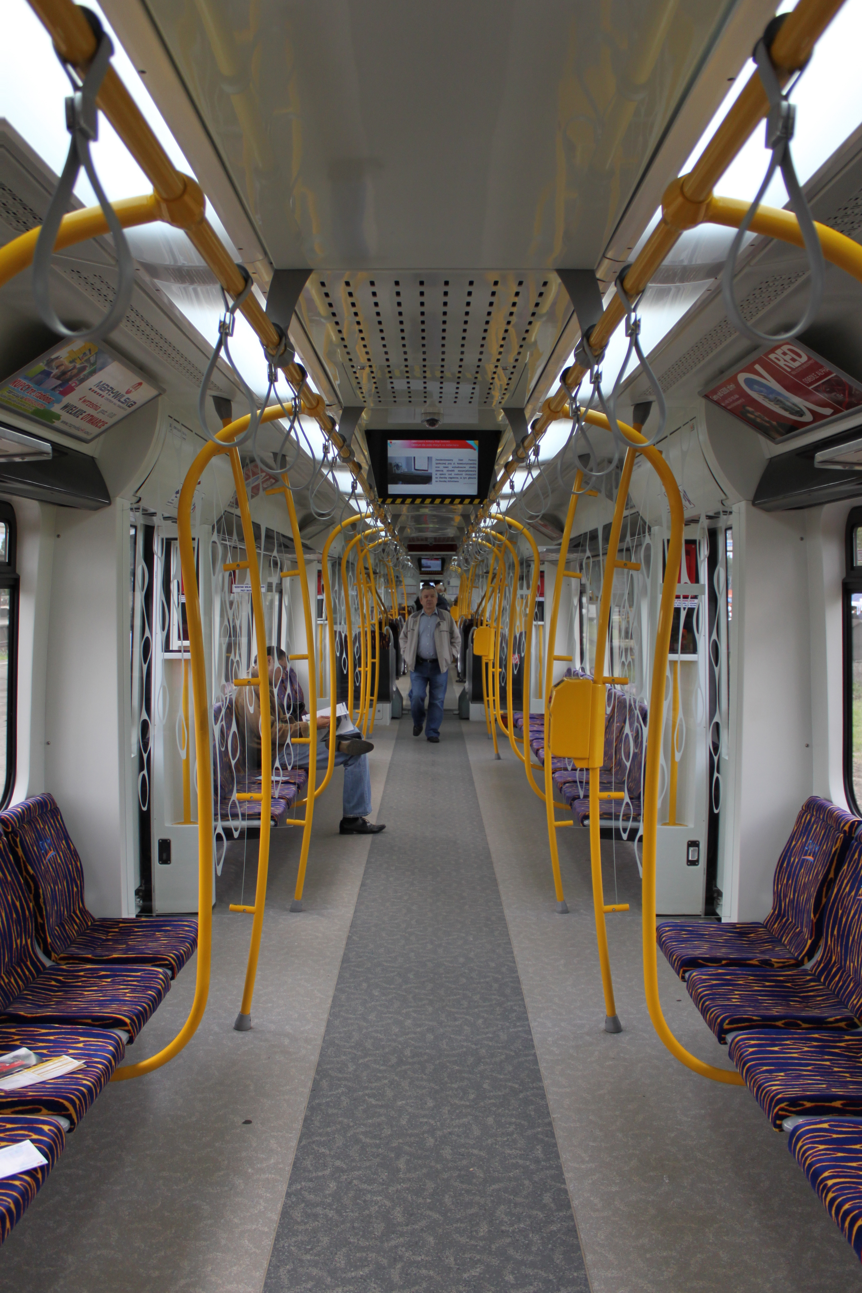 SKM Train Newag 19WE (#2 150 013-2) interior, Public Transport Days 2010, Warszawa Zachodnia, Poland